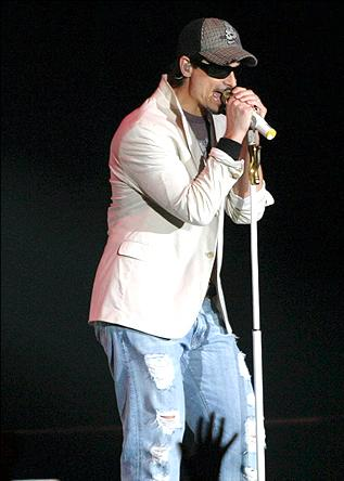 Kevin em apresentação da turnê Never Gone. Kevin during concert of the Never Gone Tour.